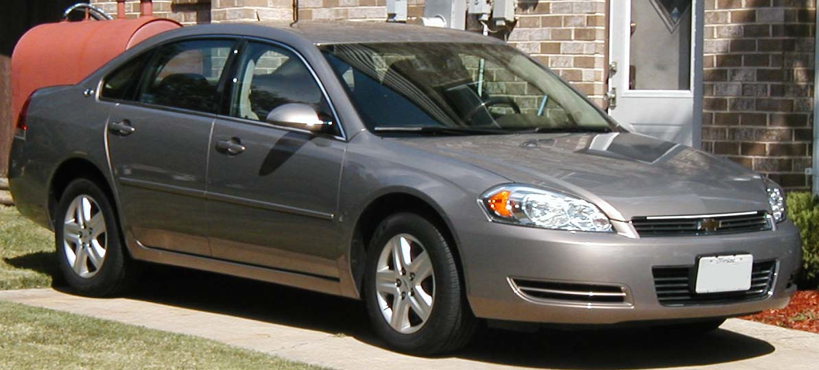 2006-2007 Chevrolet Impala photographed in USA.